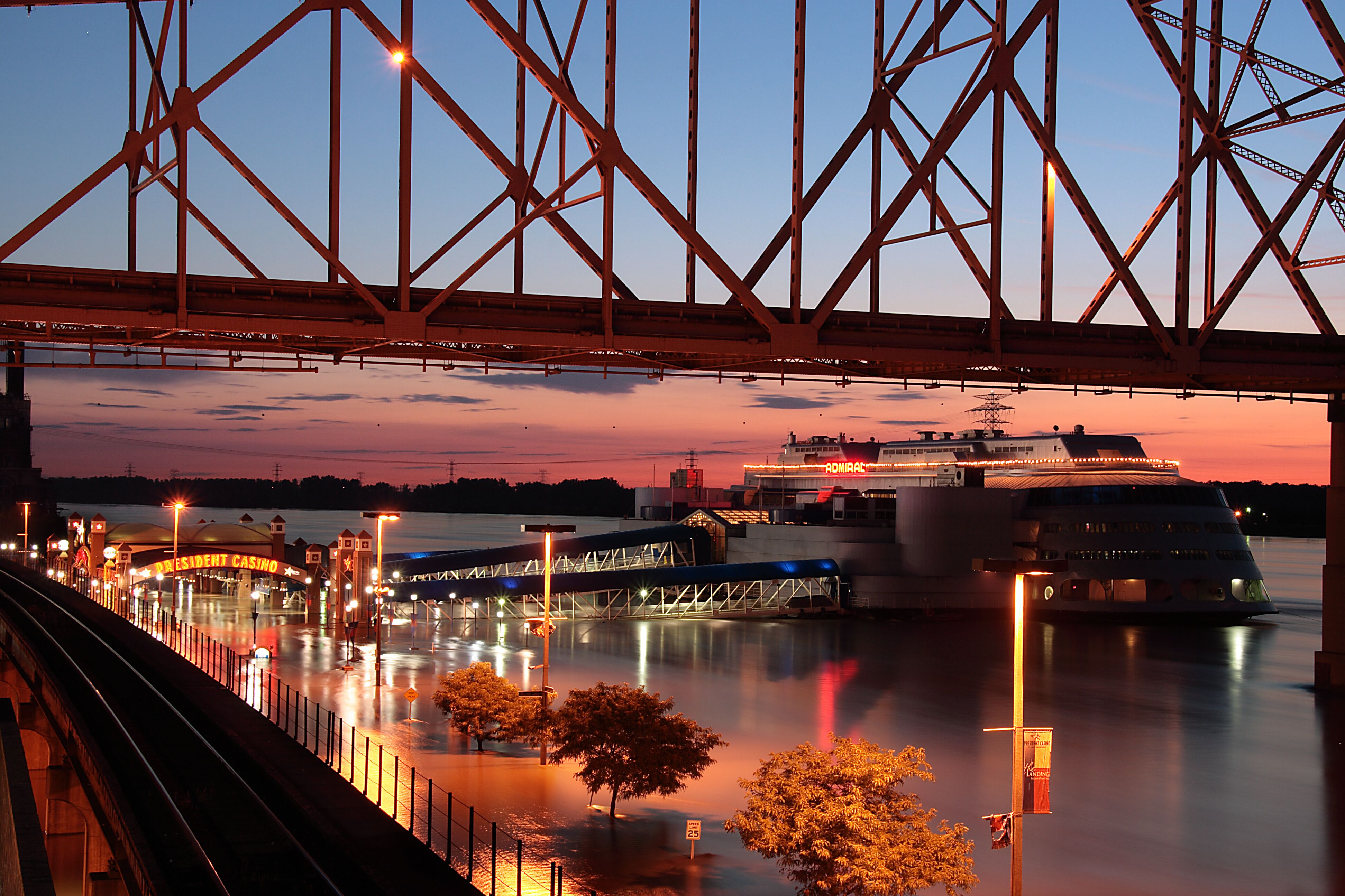 Flood waters at the St. Louis riverfront. I'm impressed that the lights still worked with the wiring under water. It just goes to show that this area is a recreation area outside of the floodwall designed to withstand flooding. Downtown St. Louis isn't where people lost houses to the flood. A couple weeks after these were taken the river had gone down and the streets had been cleaned and reopened.